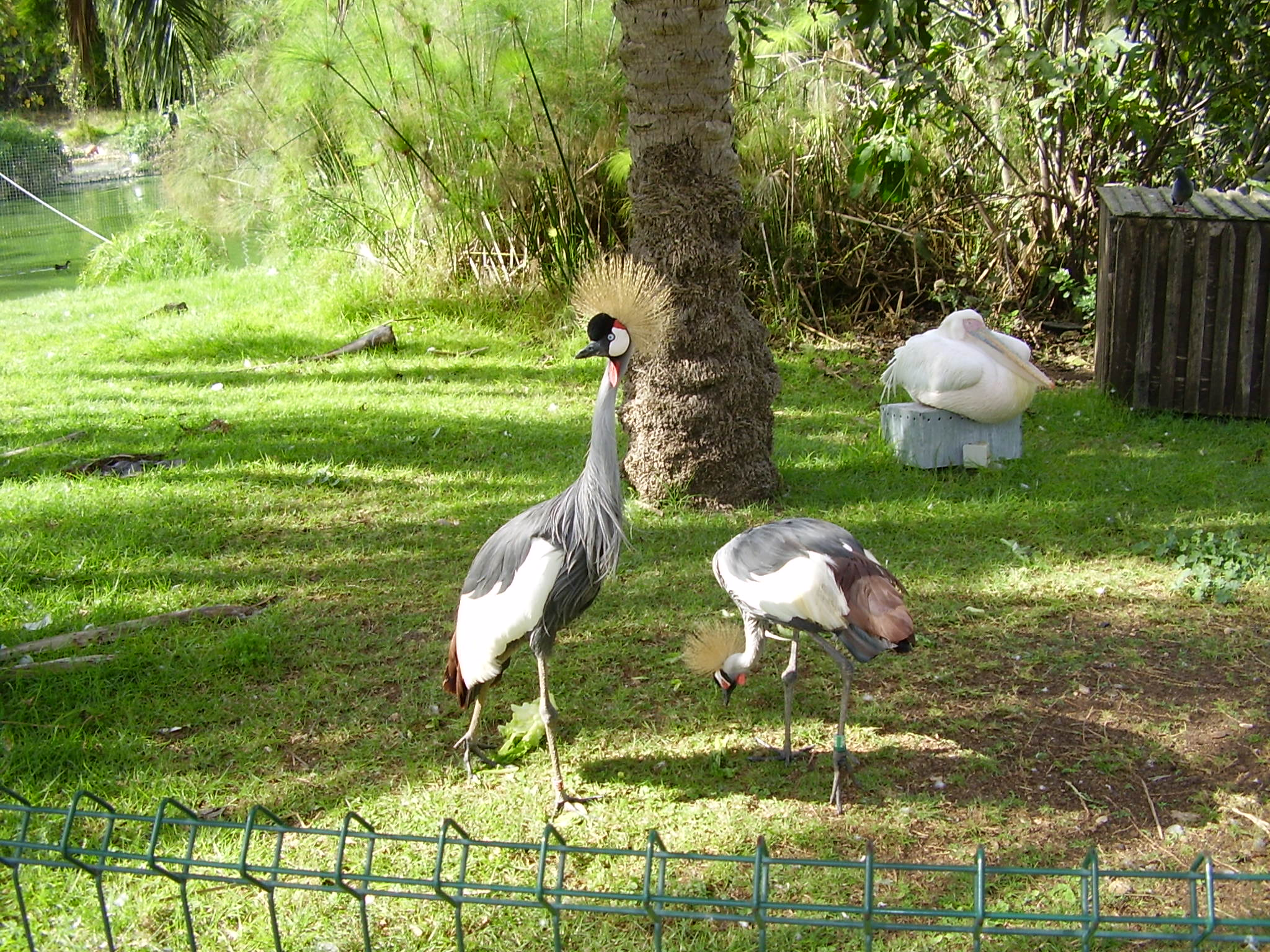 crowned cranes in the biblical zoo, jerusalem